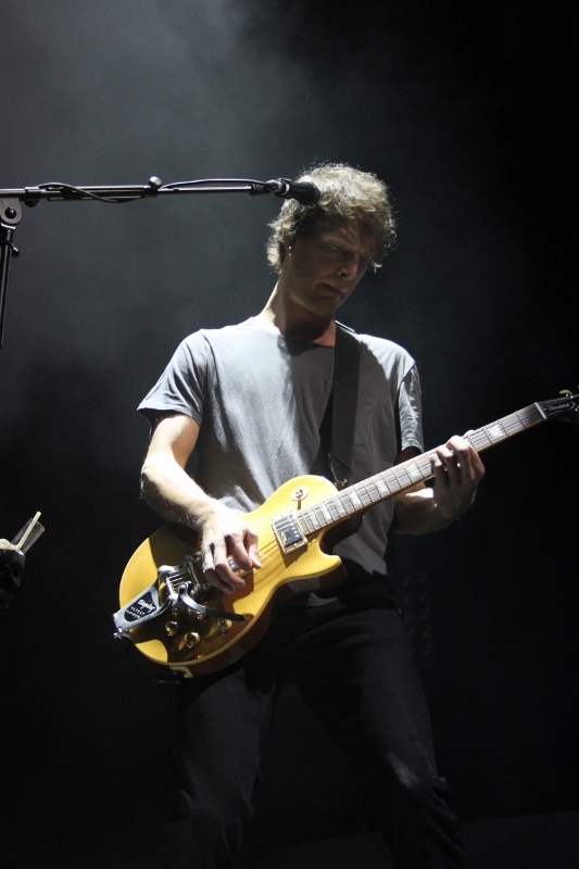 Riku Rajamaa with Sunrise Avenue in the Festhalle in Frankfurt am Main